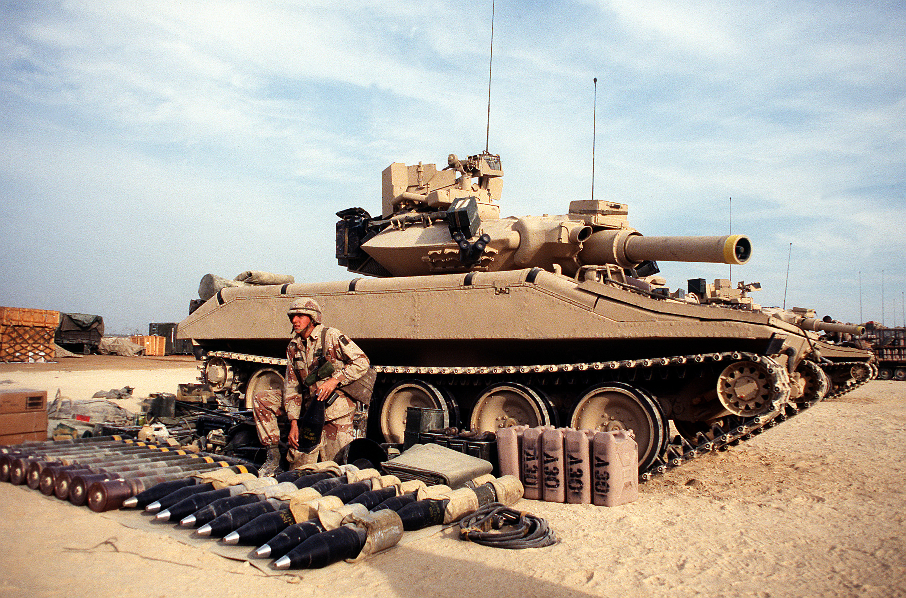 Saudi Arabia – A soldier from Company A, 3rd Battalion, 73rd Armor, 82nd Airborne Division, lays out equipment for an M551 Sheridan light tank prior to the 82nd Airborne Division live-fire exercise during Operation Desert Shield